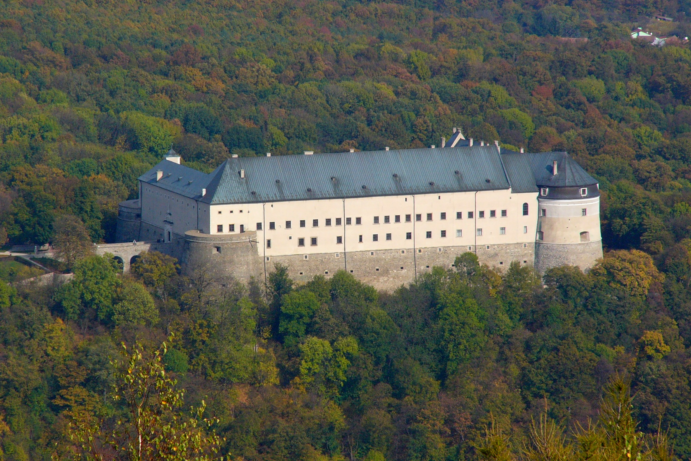 Červený Kameň from Kukla, Malé Karpaty, October 2008